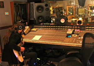 Paul Moak in the studio.